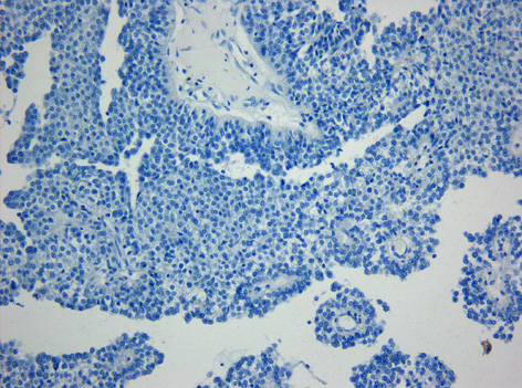 Photomicrograph of papillary tumor of the pineal region (PTPR) stained for epithelial membrane antigen (EMA) at 200x magnification. Image taken using an Olympus Microscope and Analysis-Imaging Software on 12-02-2006